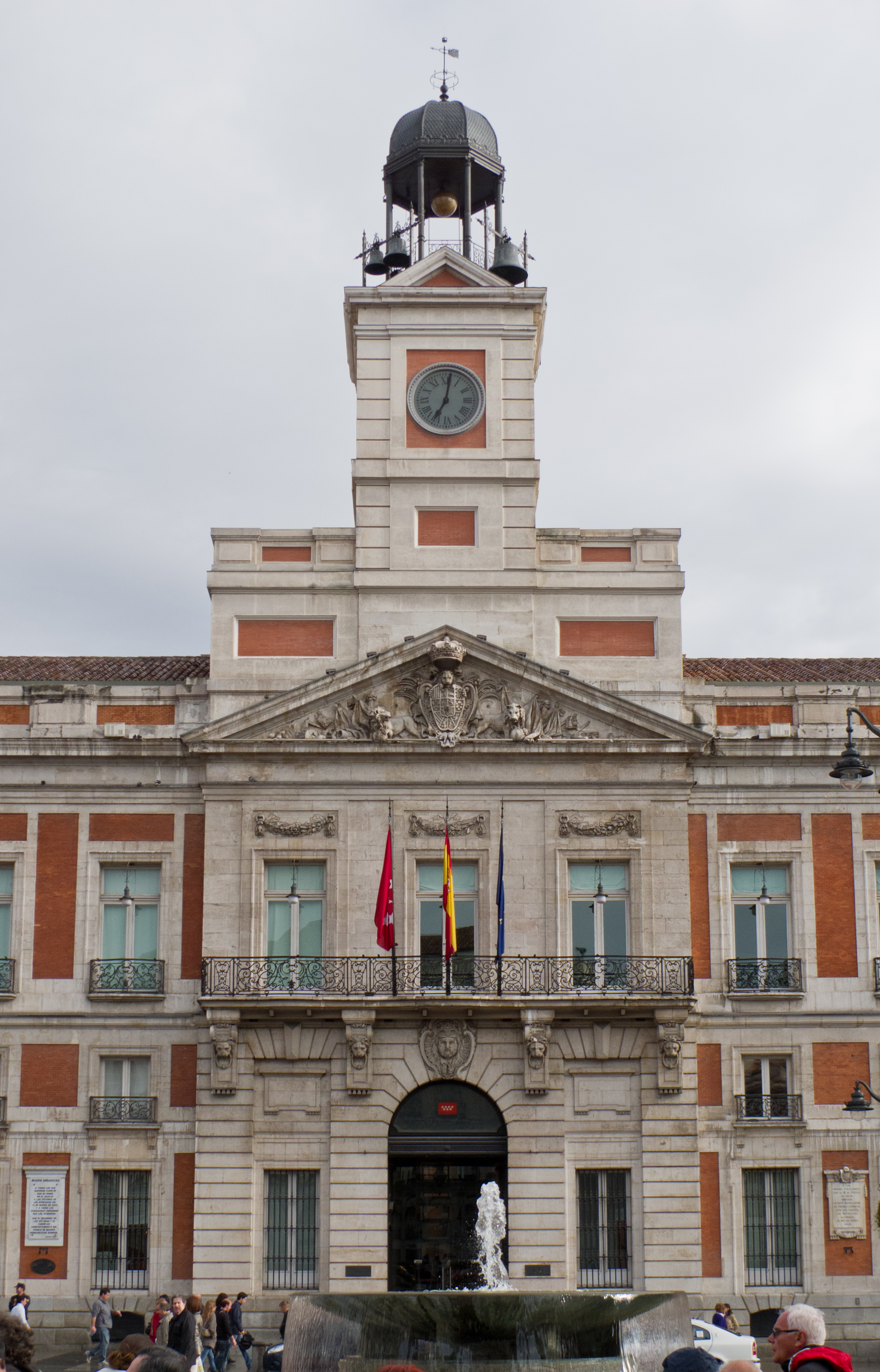 Real Casa de Correos (Royal Mail House), Madrid, Spain.